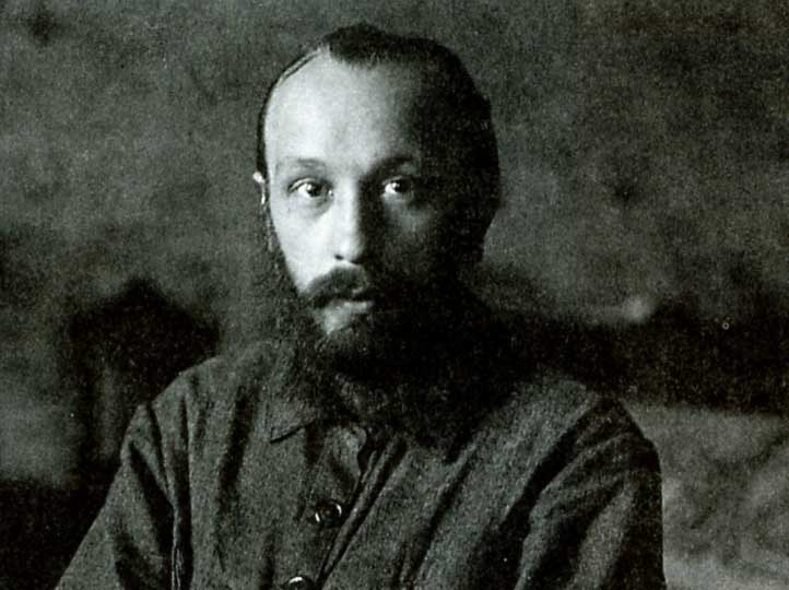 Bakhtin in the twenties.